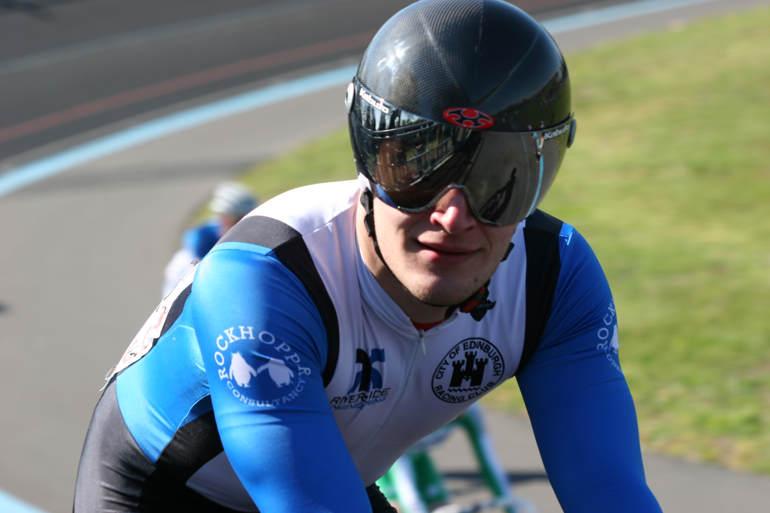 Callum Skinner at the Herne Hill Good Friday Meeting in 2012